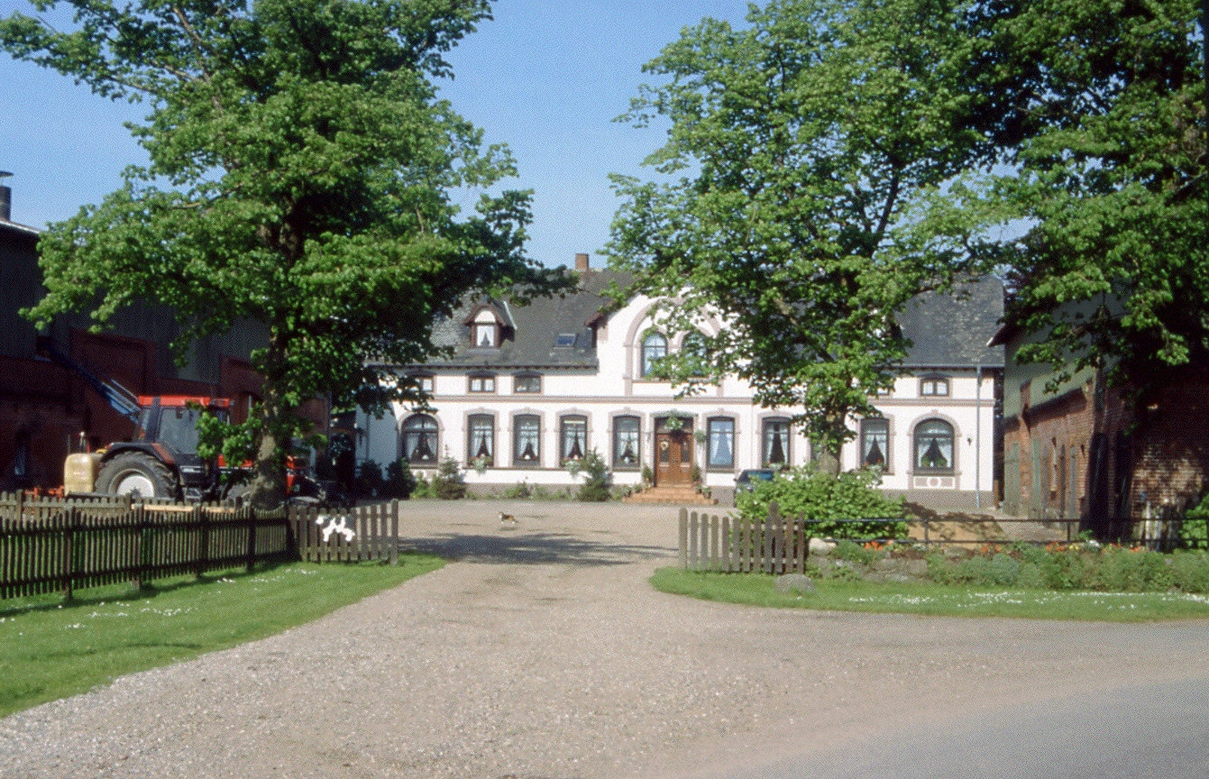 Three-roof farm in Angeln, the northeast of Schleswig-Holstein (D)